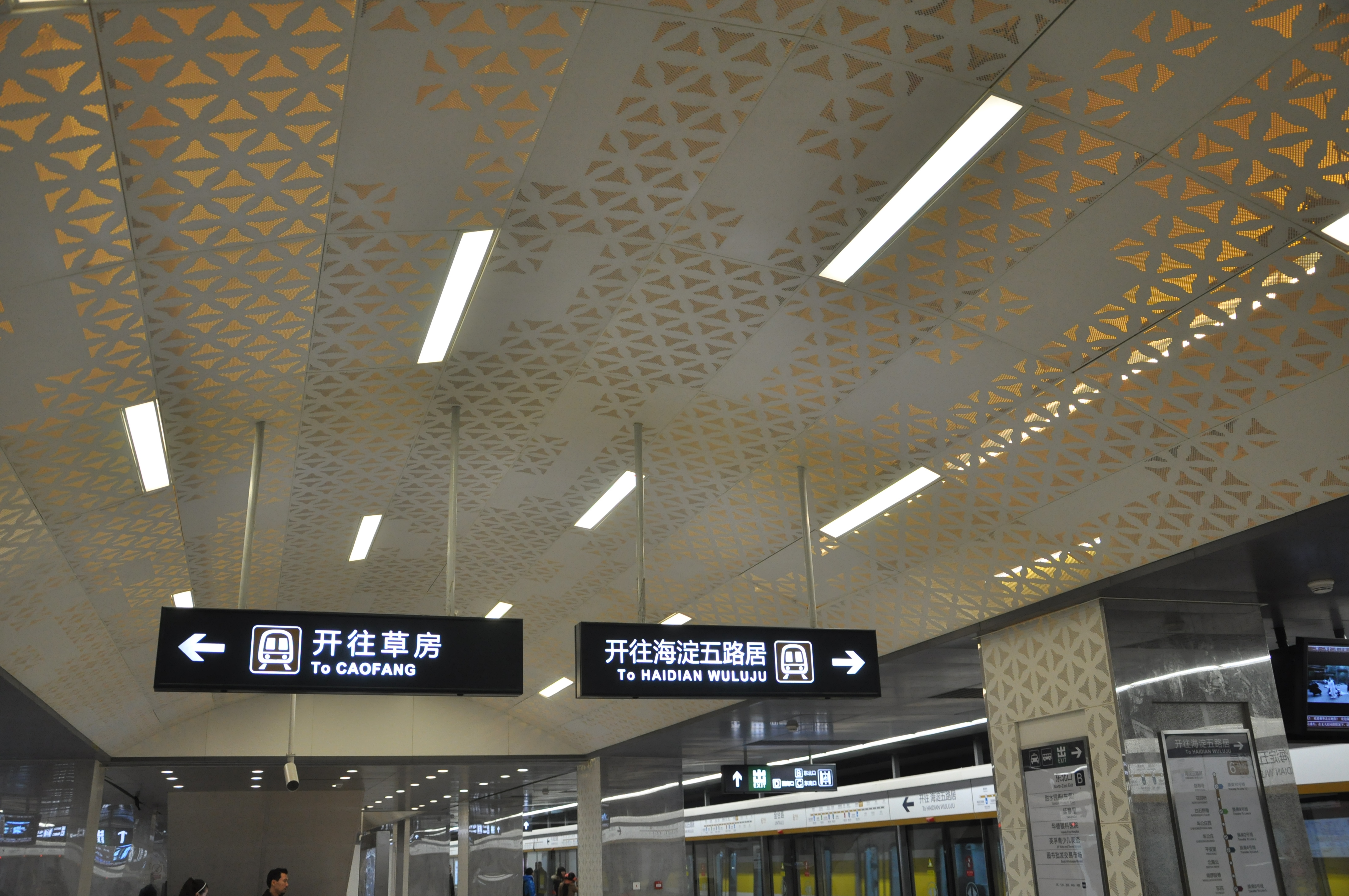 Ceiling of the platform, Jintailu station, Line 6, Beijing Subway.